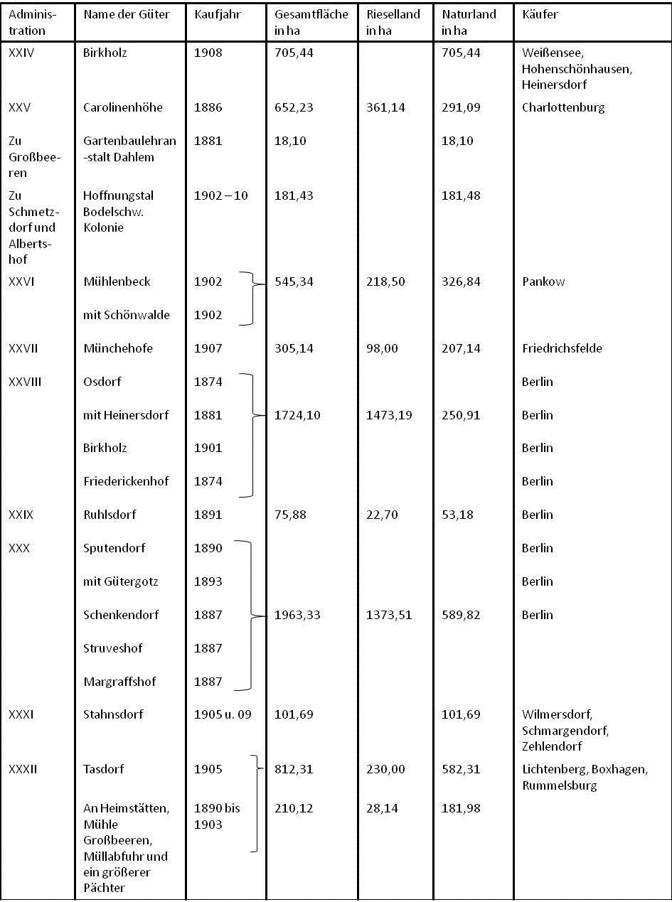 The table shows the manors which the city of Berlin demised, the year of purchase, the purchaser and their size.